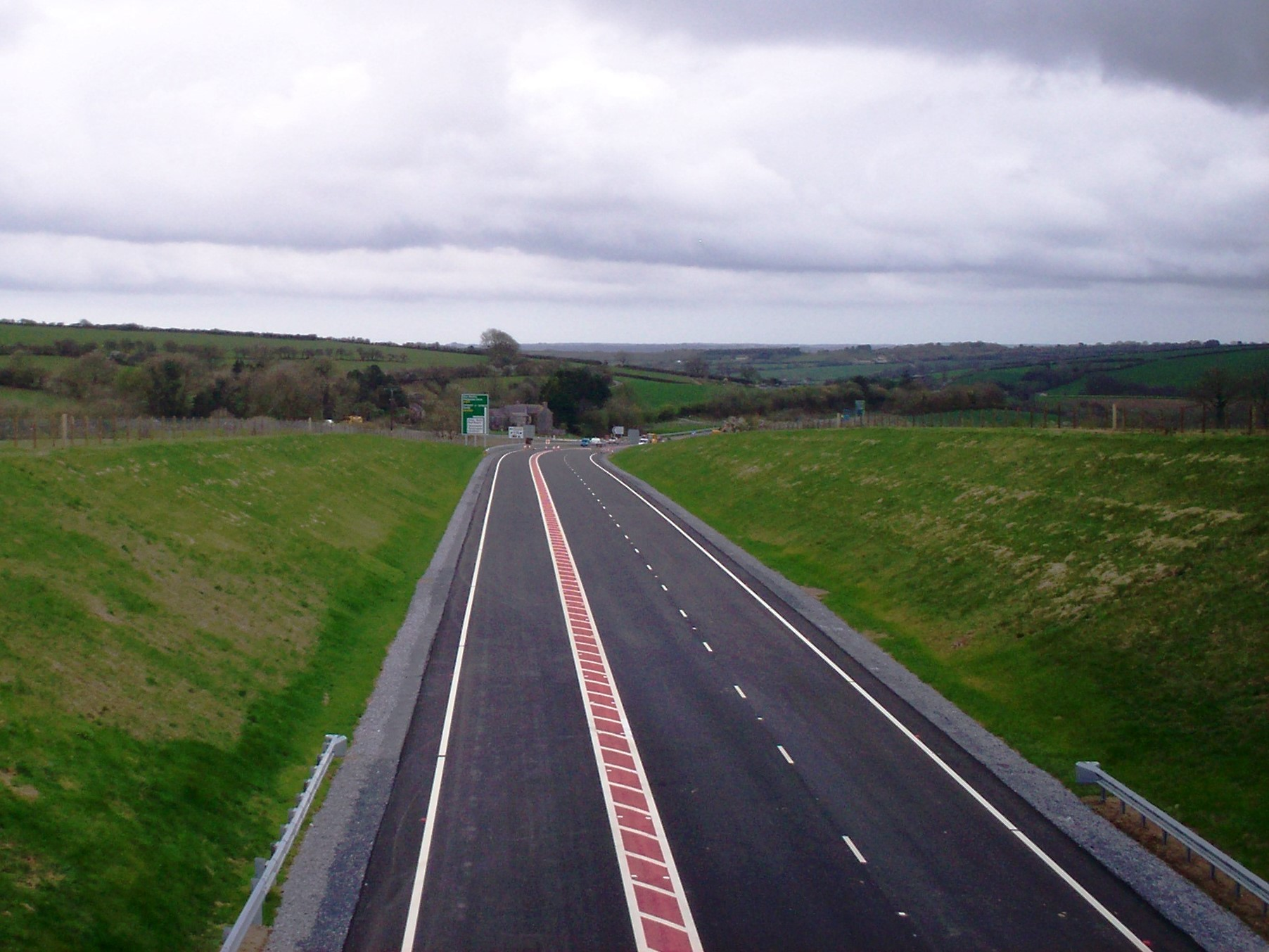 New A477 Red Roses By Pass - looking west